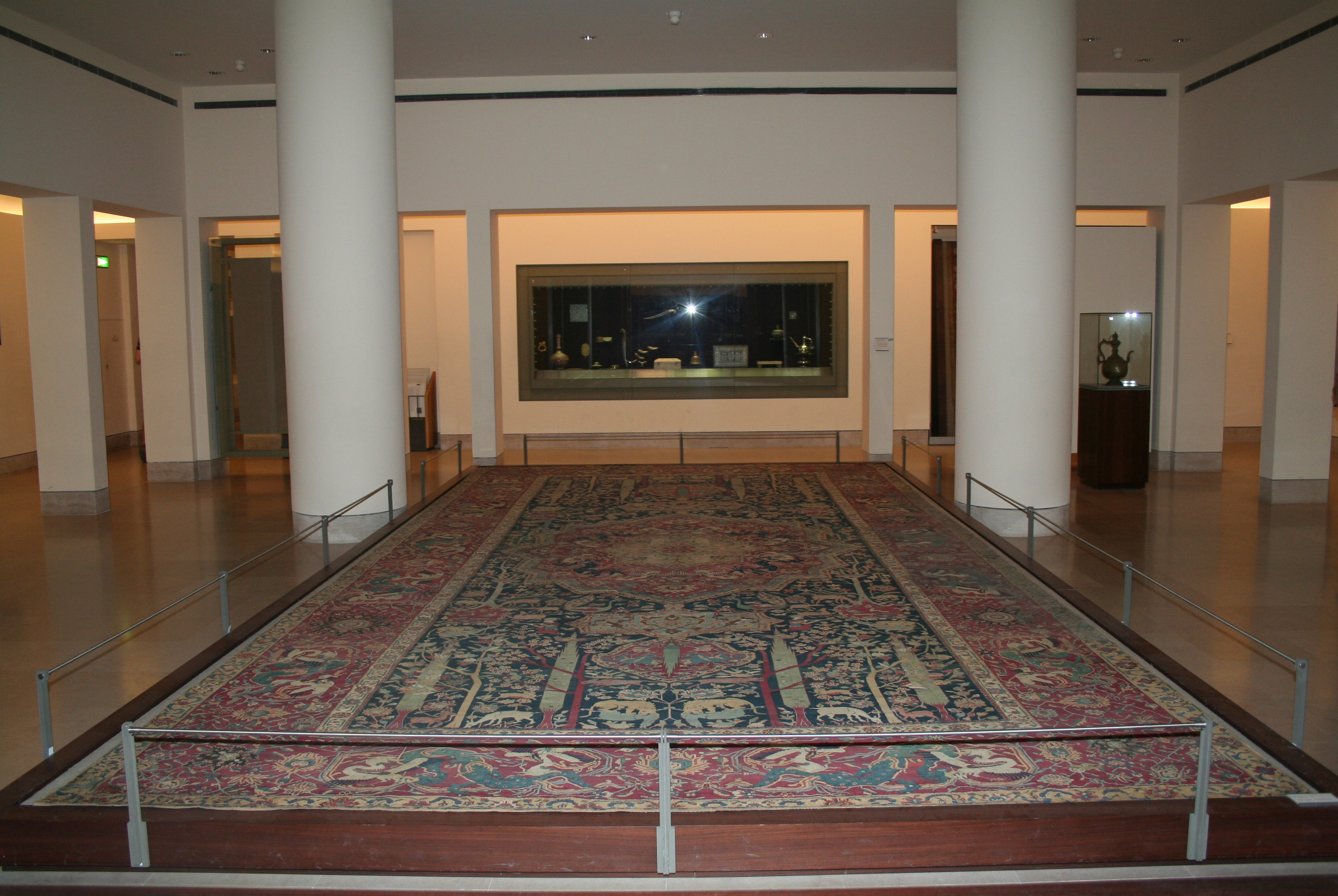 Persian Carpet at Louvre Museum, Paris, 2006 Photo by Pejman Akbarzadeh (Persian Dutch Network) فرش ایرانی در موزه لوور - پاریس، 2006 - عکس از پژمان اکبرزاده - شبکه ایرانیان هلند